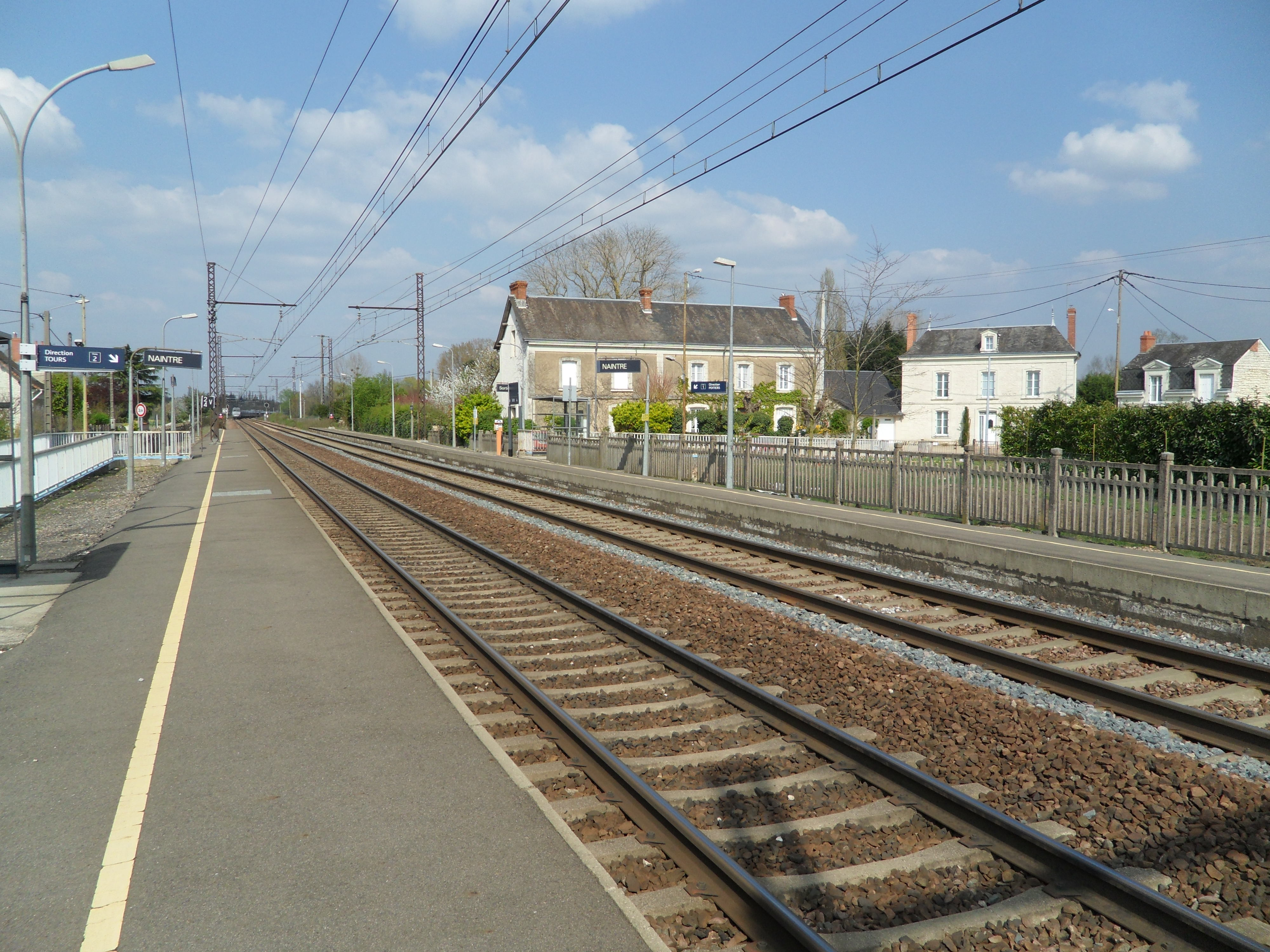 View towards Tours of the platforms of "Naintré-les-Barres" station in Naintré, Vienne, France.